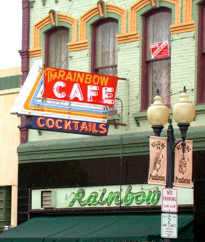 Rainbow Cafe exterior in downtown Pendleton, Oregon.